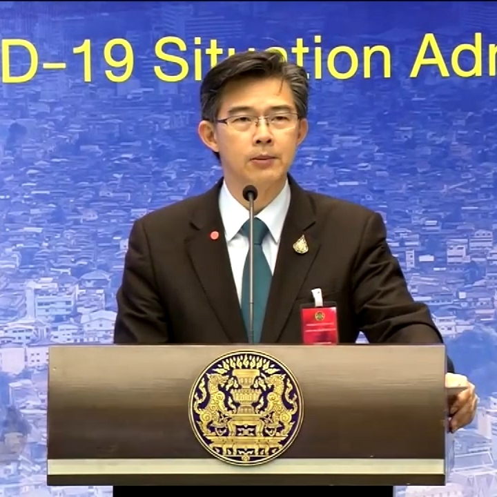 Taweesin Visanuyothin, giving brief summaries of COVID-19 situation at Center of COVID-19 Situation Administration (CCSA), Government House of Thailand on April 2, 2020